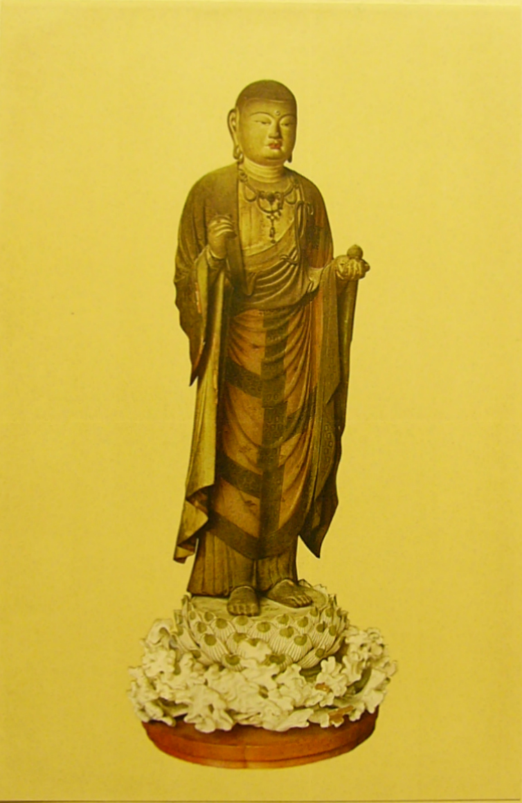 ZIZO-BOSATU(KSITIGARBHA Bodhisatva) wood coloured, engarve signed on the right food 'Skillful Hokkyo Kwaikei' 904mm BODY height, about ACE1203-5, Todaiji Temple. Nara, Japan